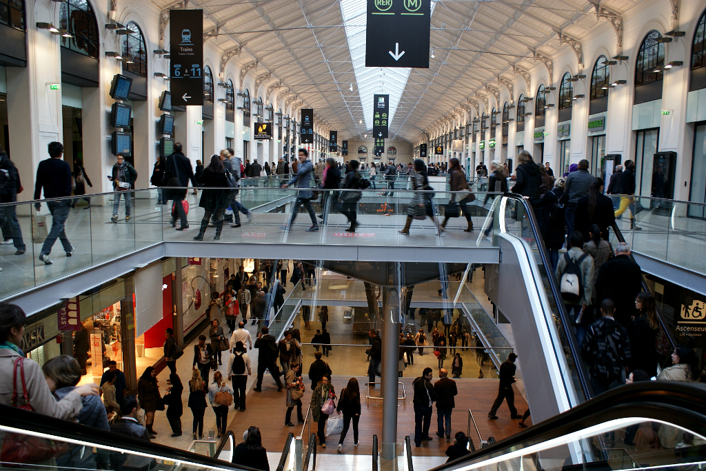 Passengers hall of Gare Saint-Lazare